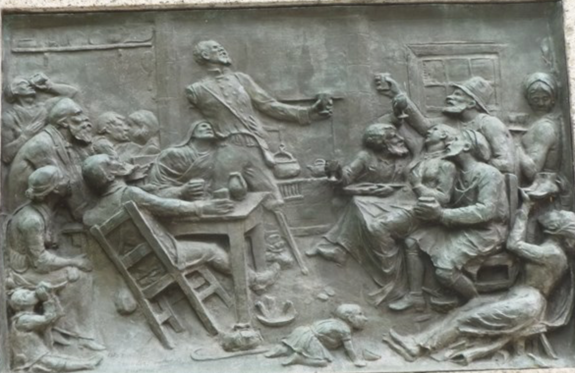 The Jolly Baggers, Robbie Burns Statue, Halifax, Nova Scotia